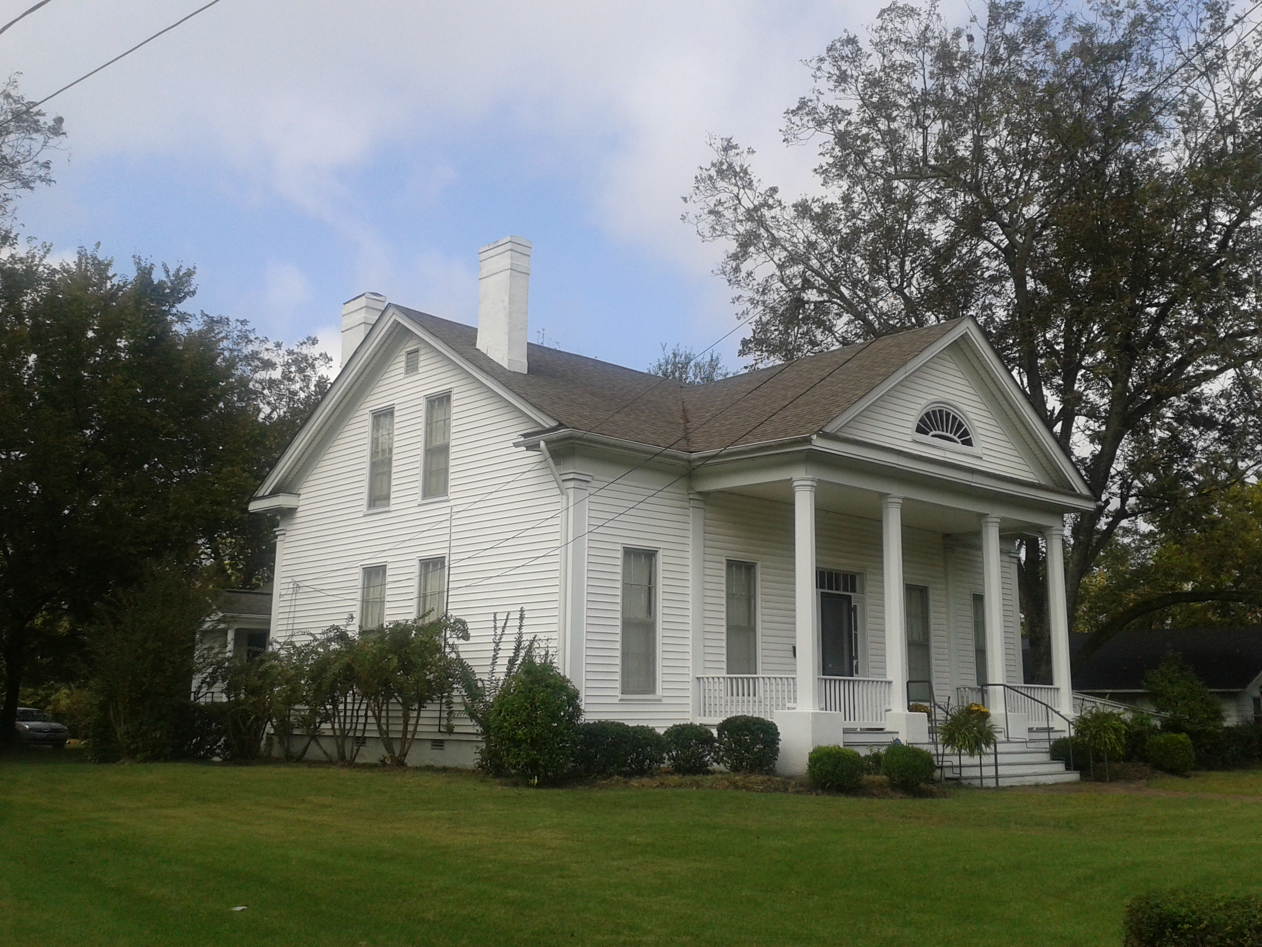 Ida Wells-Barnett Birthplace, Holly Springs, Mississippi. Building is in the East Holly Springs Historic District